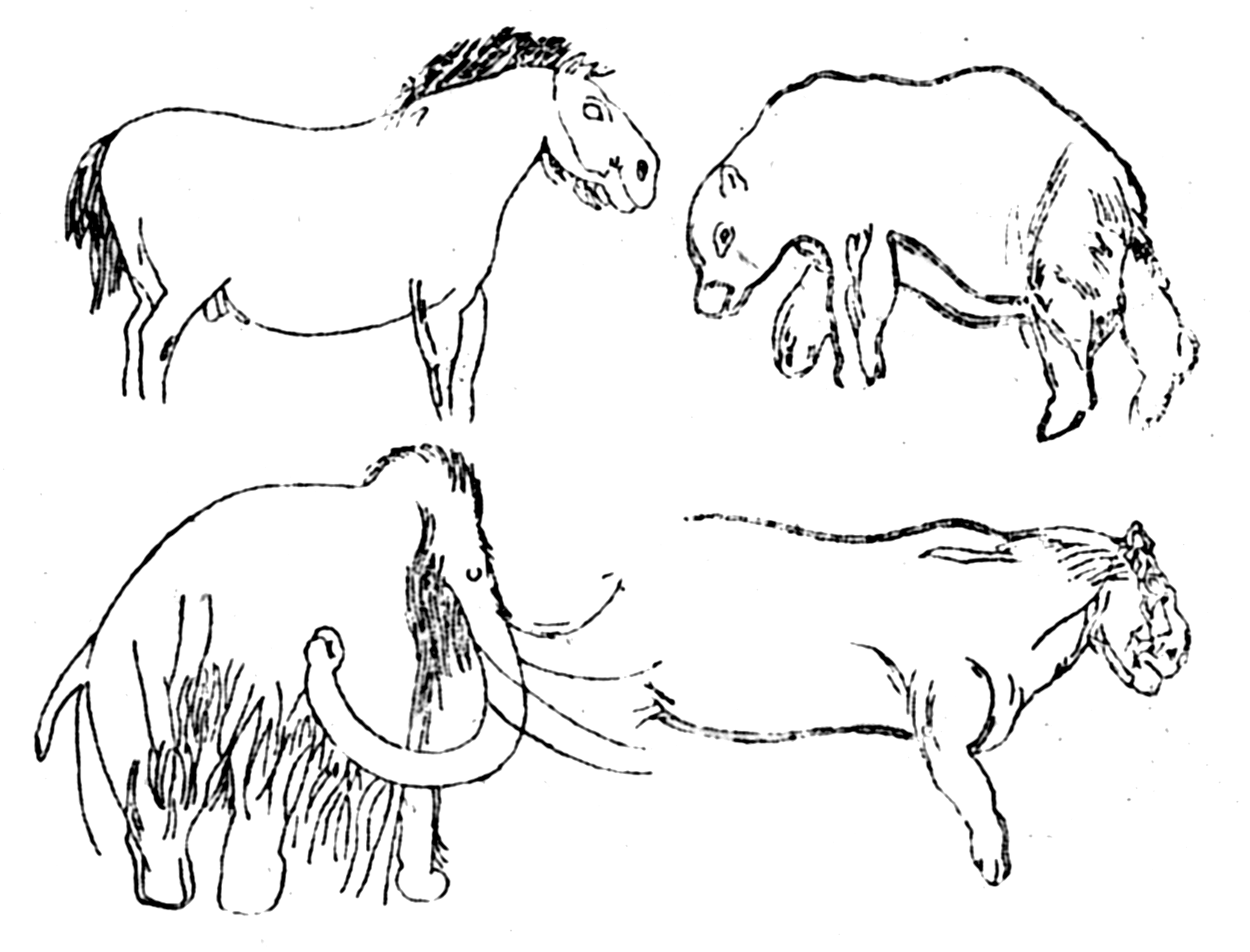 Wall drawing in the cave Les Combarelles in Dordogne (wild horse, cave bear, mammoth, cave lion).